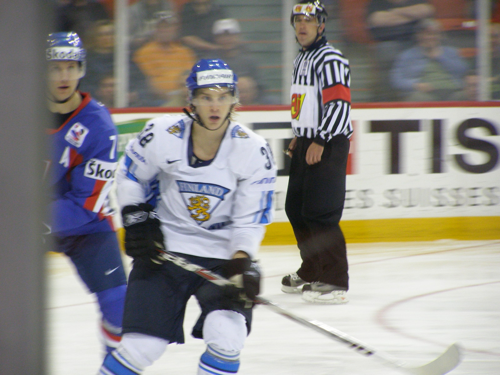 Finland VS Slovakia (IIHF World Hockey Championship in Halifax NS, May 7 2008)